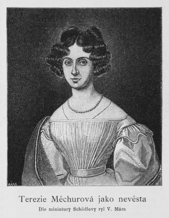 Portrait of Terezie Měchurová (1807-1860) as bride of František Palacký (1798-1876), Czech historian.